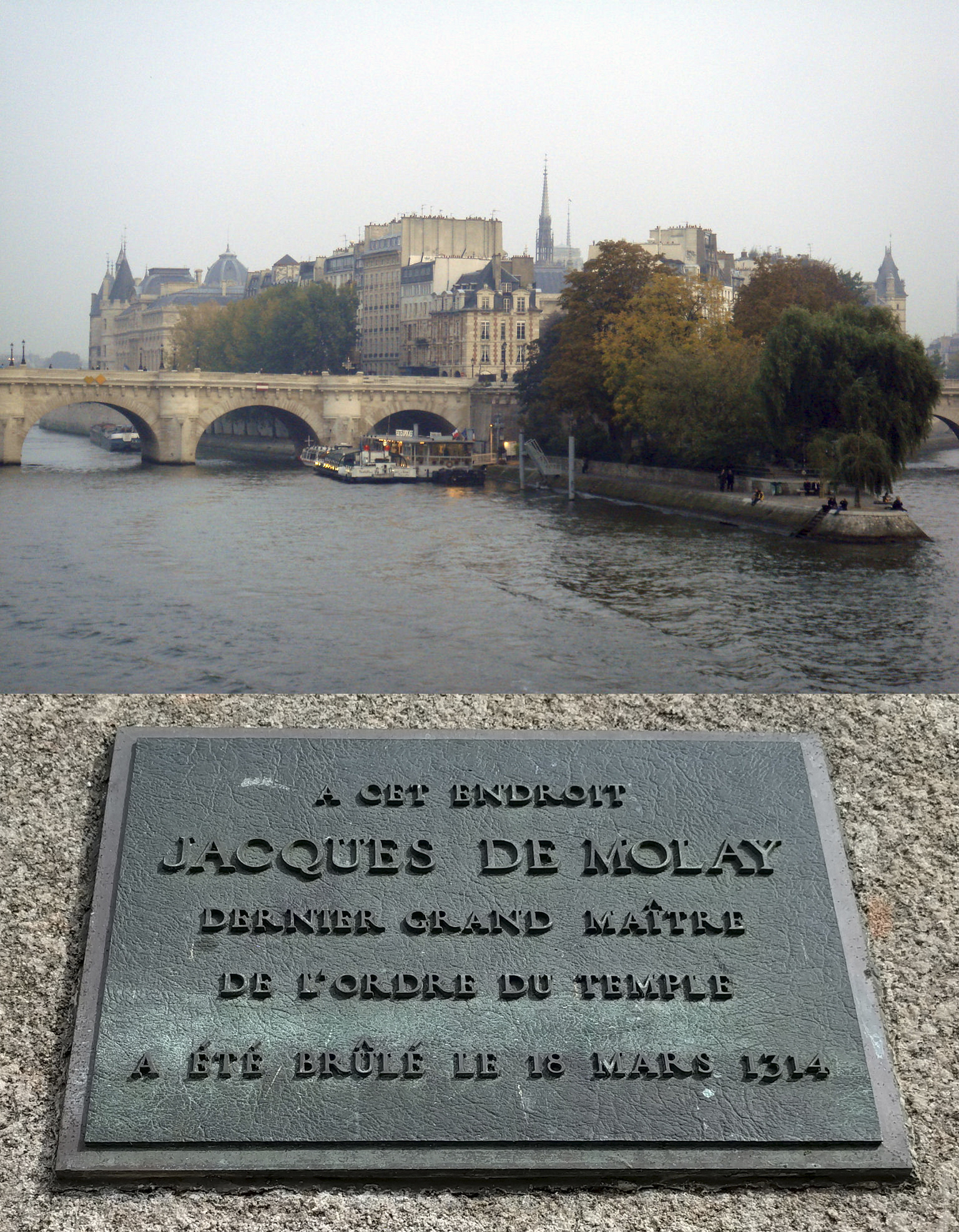 Above: Île de la Cité, below: Square du Vert-Galand, memorial to Jacques de Molay, plaque referencing 1314 on the execution site of Jacques de Molay.